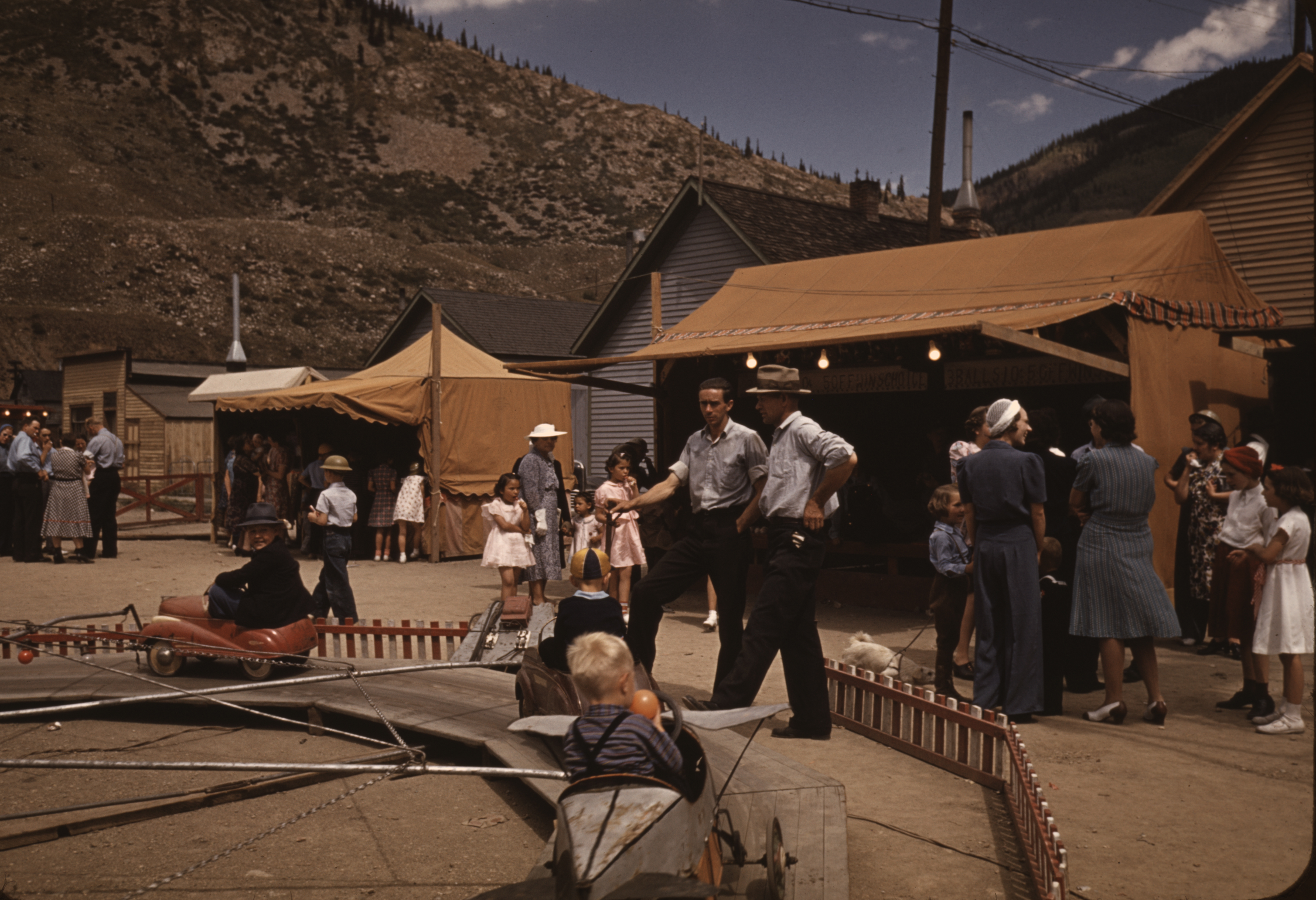 Delta County Fair, Colorado